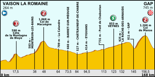 Tour de France 2013 - Profile Stage No. 16